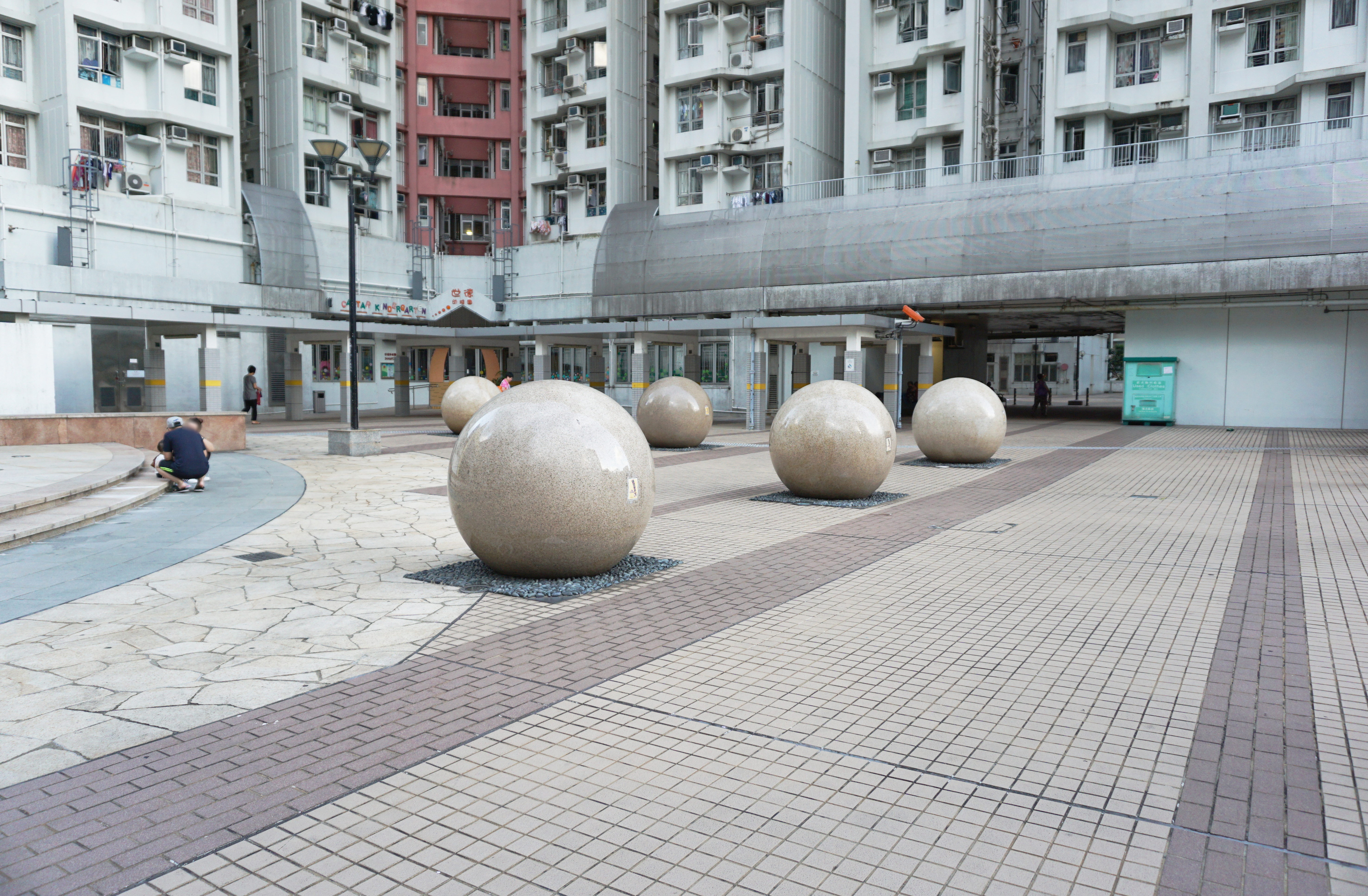 Lei Muk Shue Estate in Wo Yi Hop, Hong Kong.